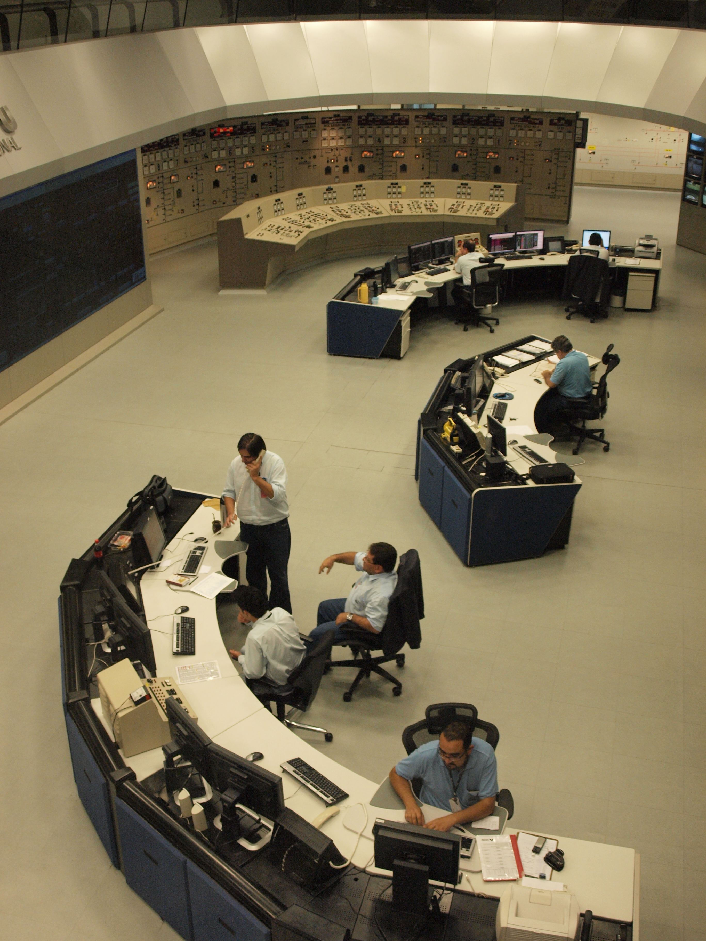 Itaipu Binational Hydroelectric Plant